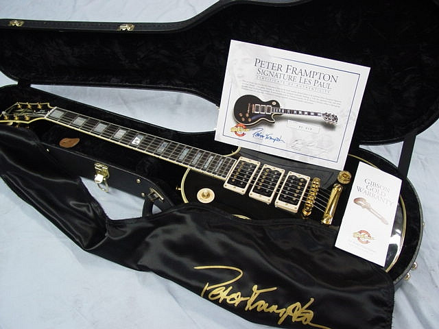 Gibson Custom Peter Frampton Signature Les Paul Custom [1] Note: it resembled 1960 Custom, but in truth, it was 1954 Custom re-finished with three humbuckers by Gibson factory in 1970, Gibson Custom said. [1] References ↑ Gibson Custom Peter Frampton Les Paul. Gibson Custom.